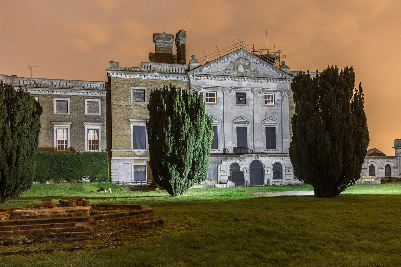 Copped Hall, near Epping, Essex. Under restoration.